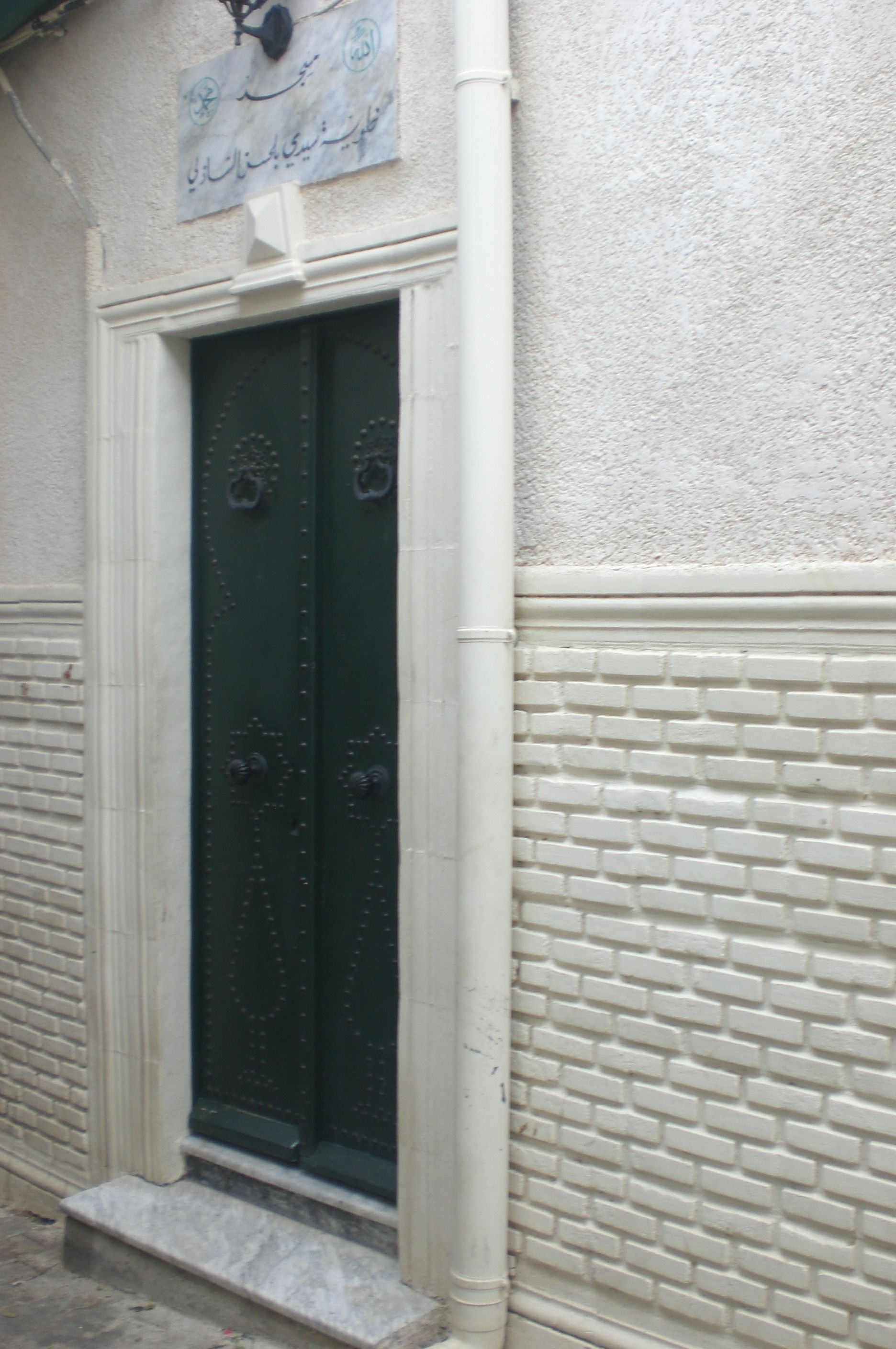 The Mosque of Sidi Belhassen in Tunis